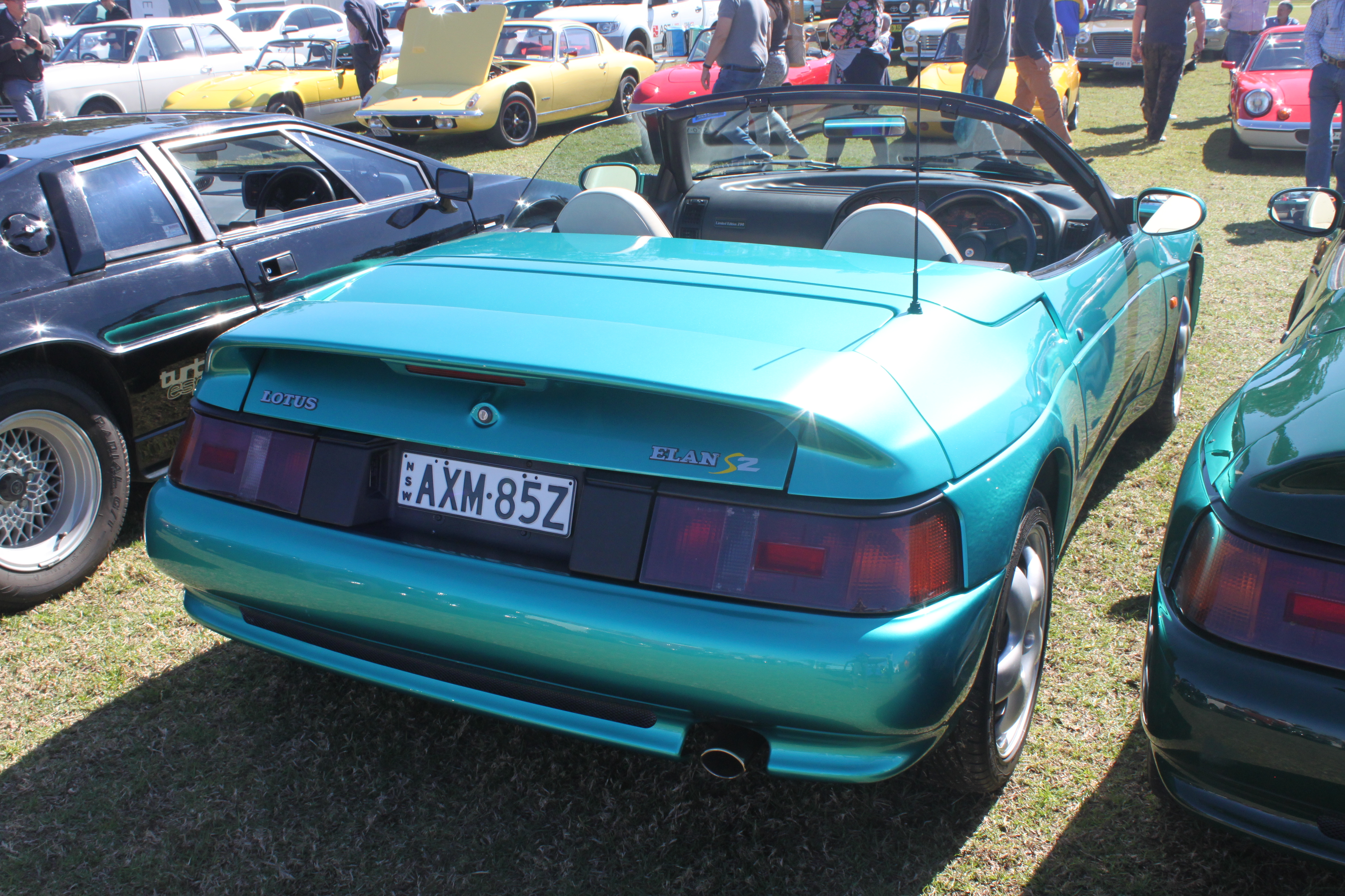 All British Day, Kings School, North Parramatta, NSW August 2015